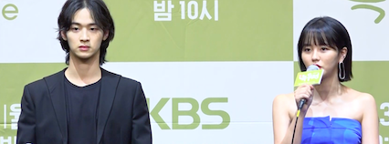 Jang Dong-yoon & Kim So-Hyun at The Tale of Nokdu press conference.